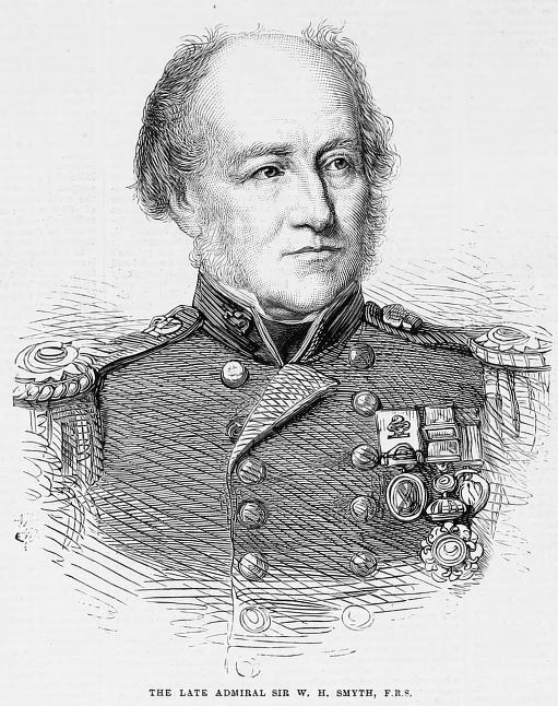 Admiral William Henry Smyth KFM DCL FRS FRAS FRGS FSA (21 January 1788 – 8 September 1865)